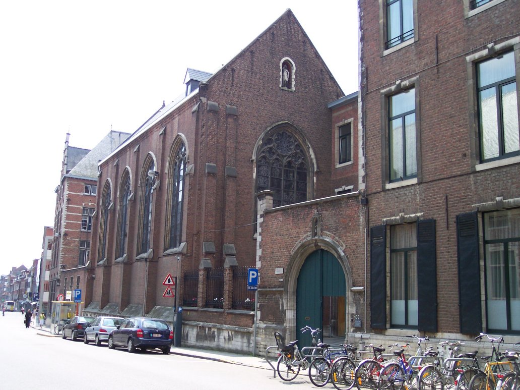 Front of the American College, Naamsestraat 100, Leuven